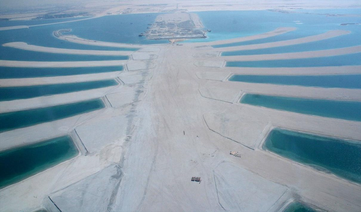 This is a photo showing the Palm Jebel Ali in Dubai, United Arab Emirates on 18 October 2007. The photo was taken on from a helicopter ride courtesy of Nakheel.